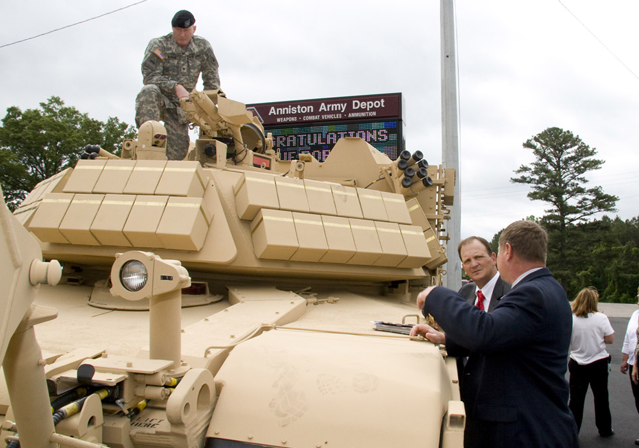 A Soldier with the Army Program Executive Office scopes out the turret of an Assault Breacher Vehicle on display at Anniston Army Depot, Ala., during the May 14 roll-out ceremony. See more at Army.mil